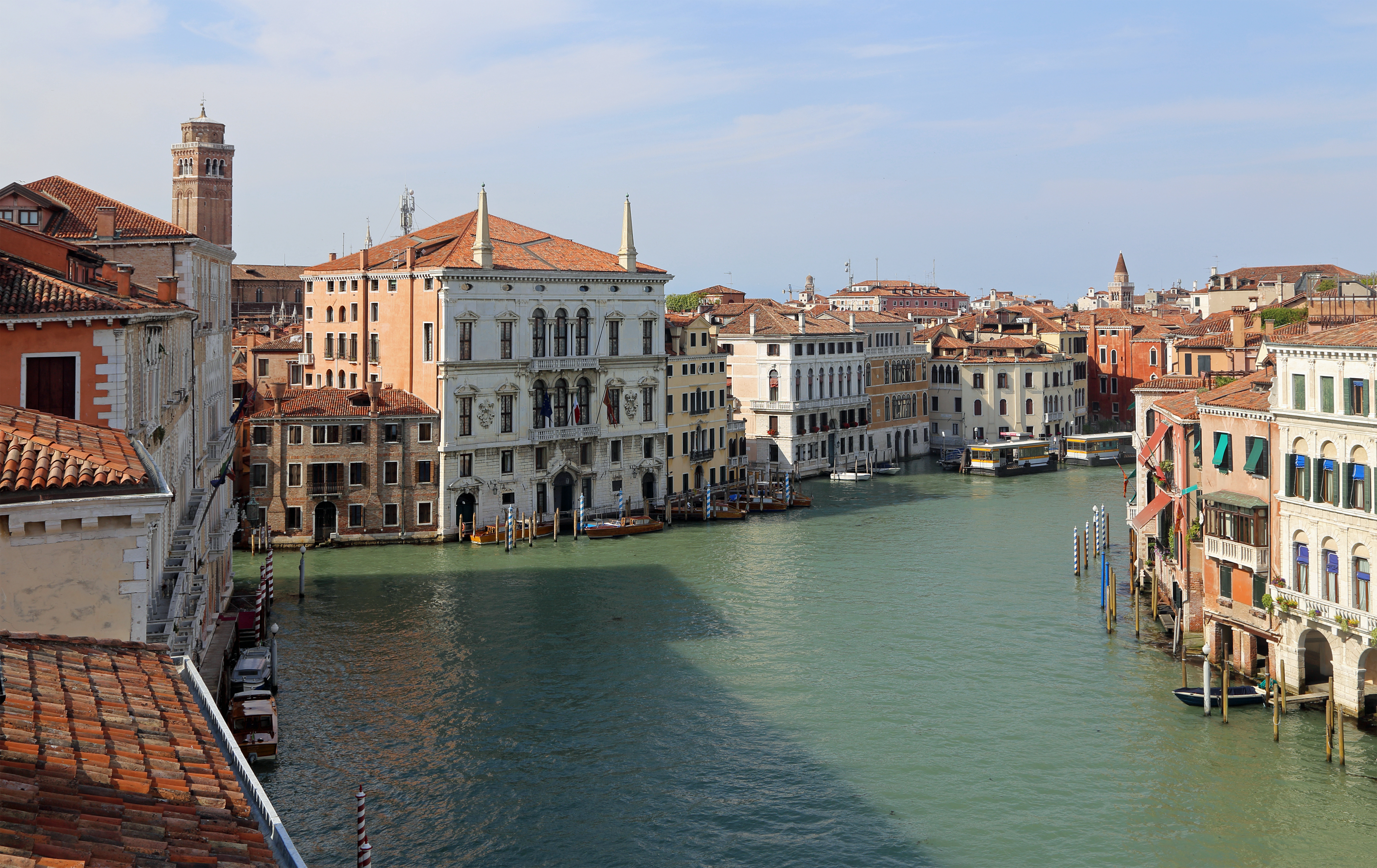 Venice (Italy): the Canal Grande with the Palazzo Balbi (left), seen from Ca' Rezzonico